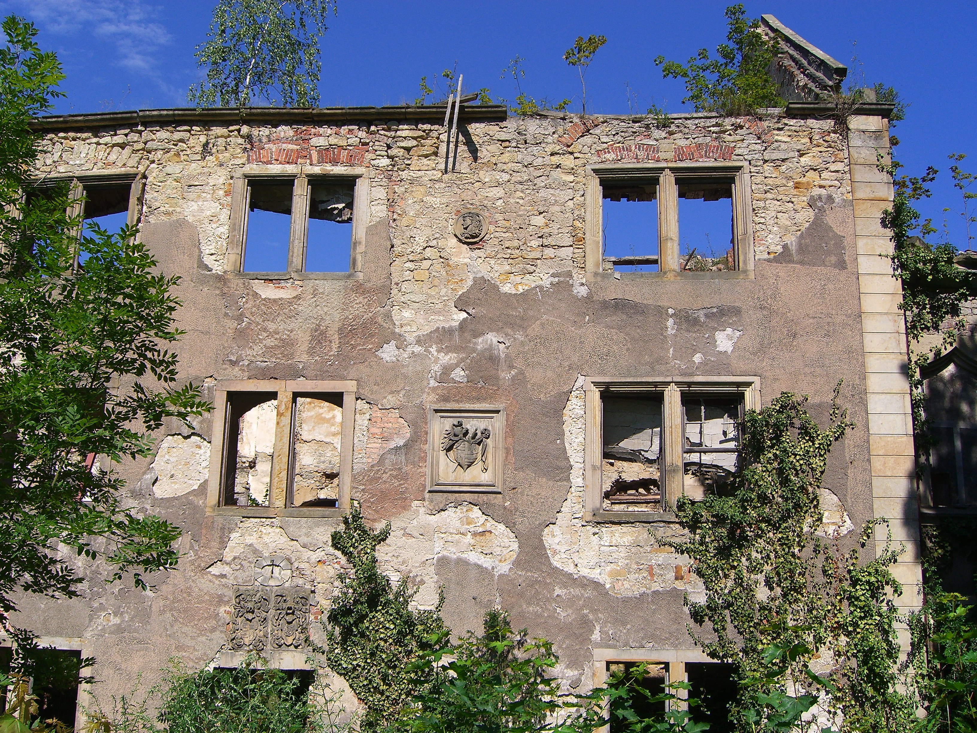 Ruin of the palace building in Harbe. Visible are the family coat of arms "Veltheim" and "Saldern".